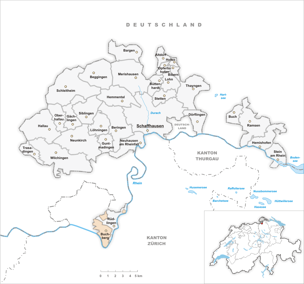 Municipality Buchberg